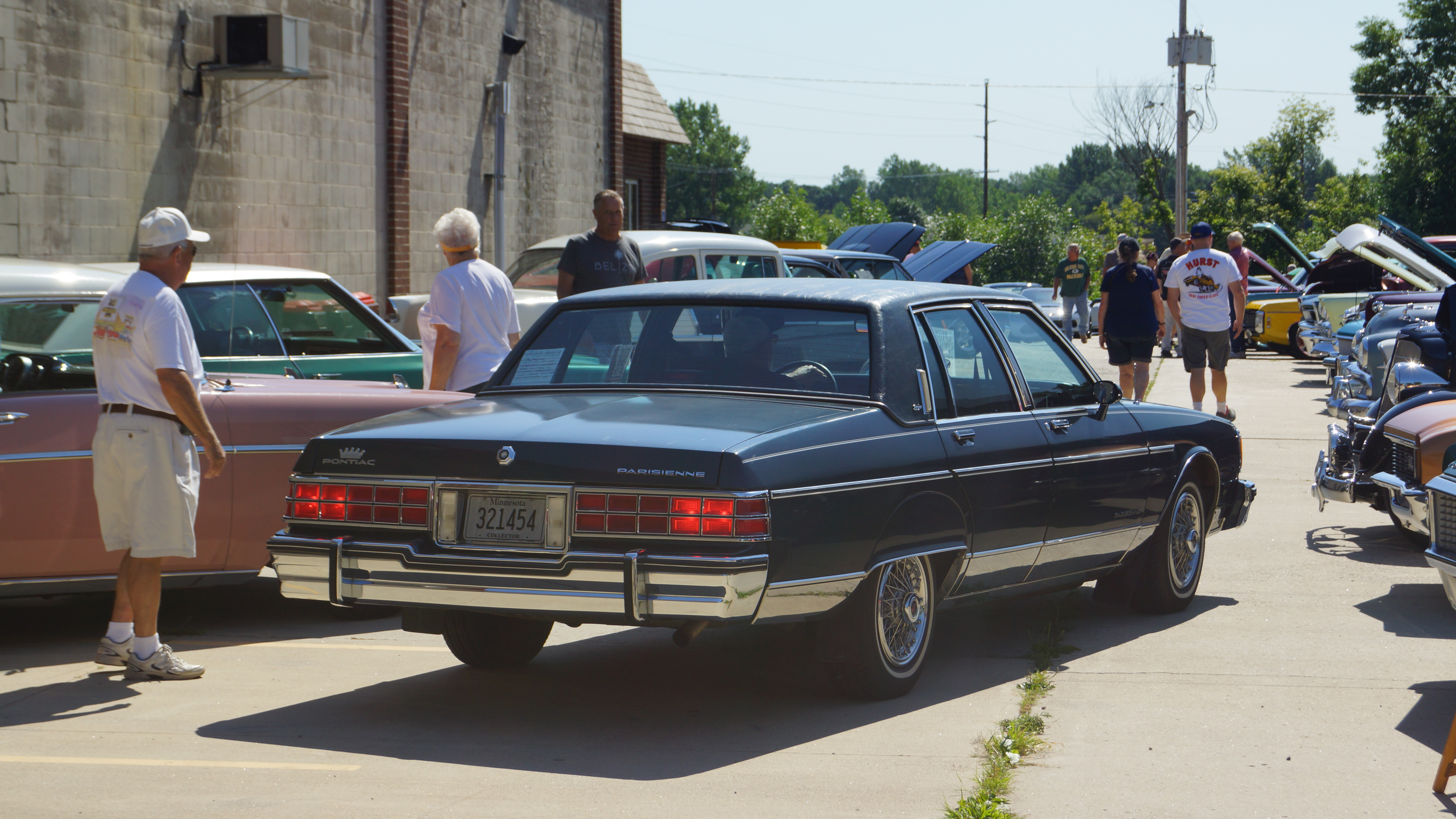 Classic Rides & Rods Classic Car Show 220 Poplar Lane Annandale, Minnesota July 8, 2018 *Click here for more car pictures by make Click here for Car Event pictures by year. Or here for my Car Crazy Tumblr site. Or on Twitter @DVS1mn.